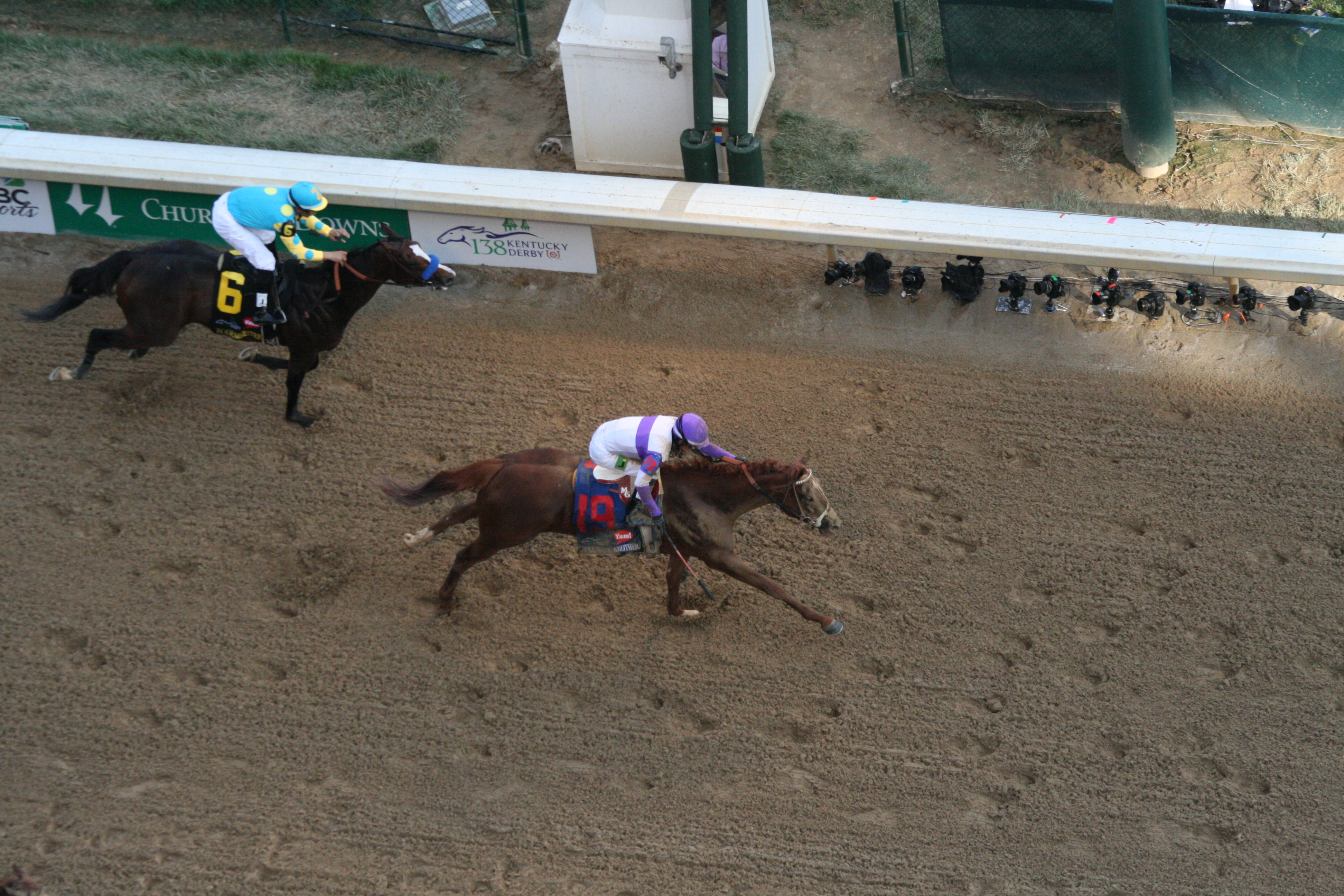 On the 138th running of The Kentucky Derby, I'll Have Another (Horse #19), did just that. He rounded the final turn and into the straight stretch to come from behind and cross the finish line, to win by a full length. Bodemeister (#6) finished second.